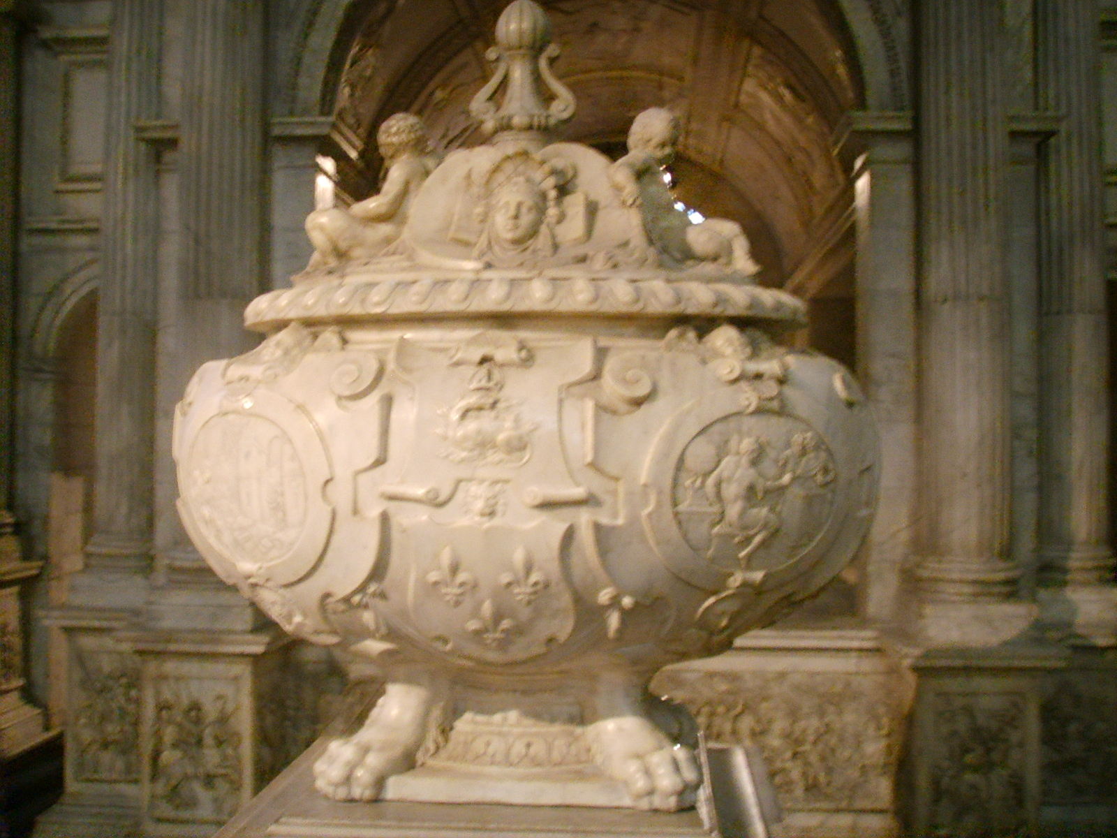 Basilica_di_saint_Denis Urn of Francis I Paris